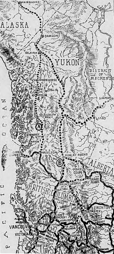 Map of proposed highway alignments to Alaska from Prince George, BC.